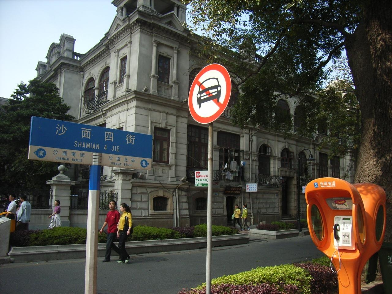 Former German Consulate on Shamian Island, Guangzhou. The building also housed the Asiatic Petroleum Company.